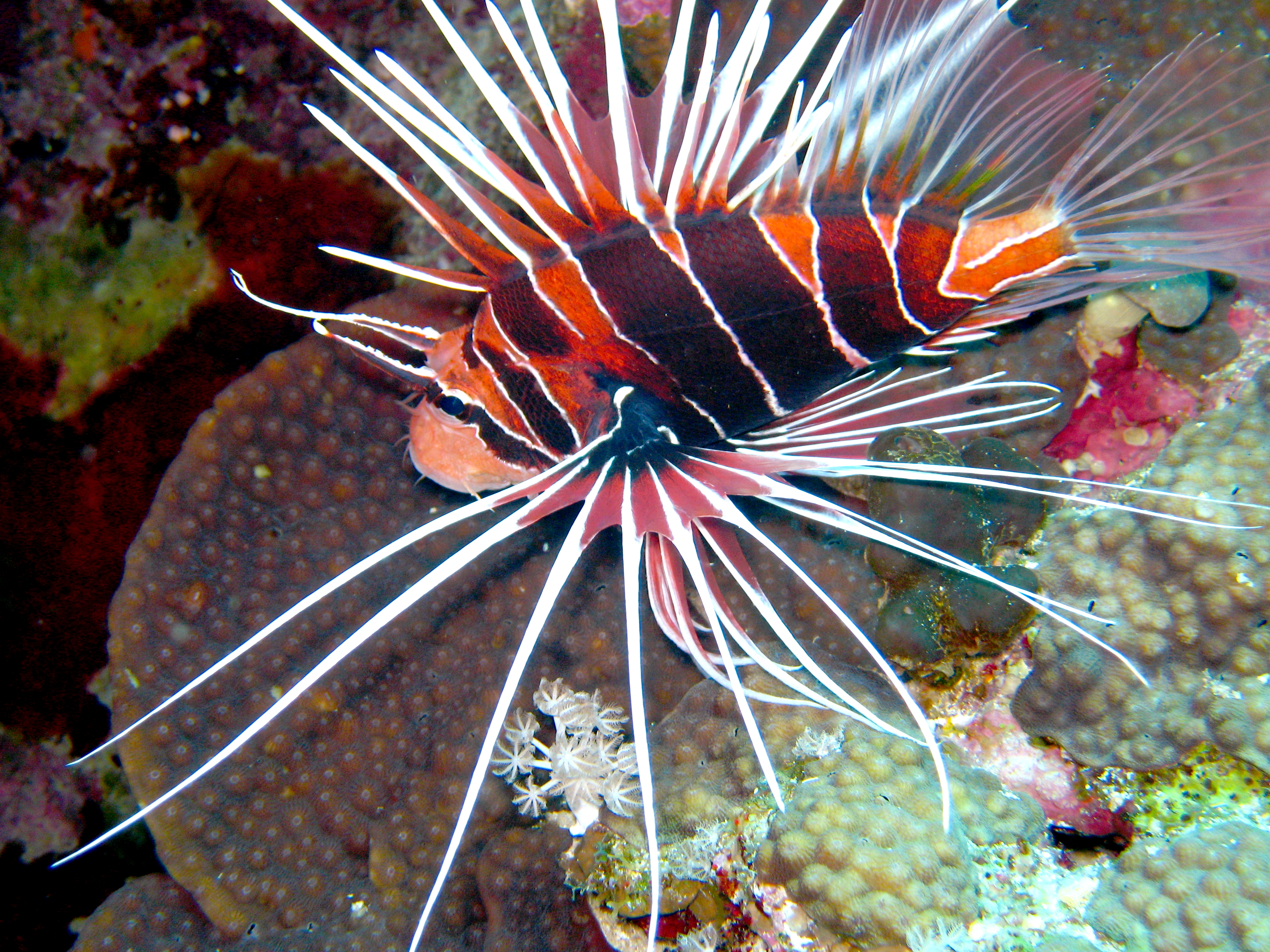 Port Ghalib Egypt